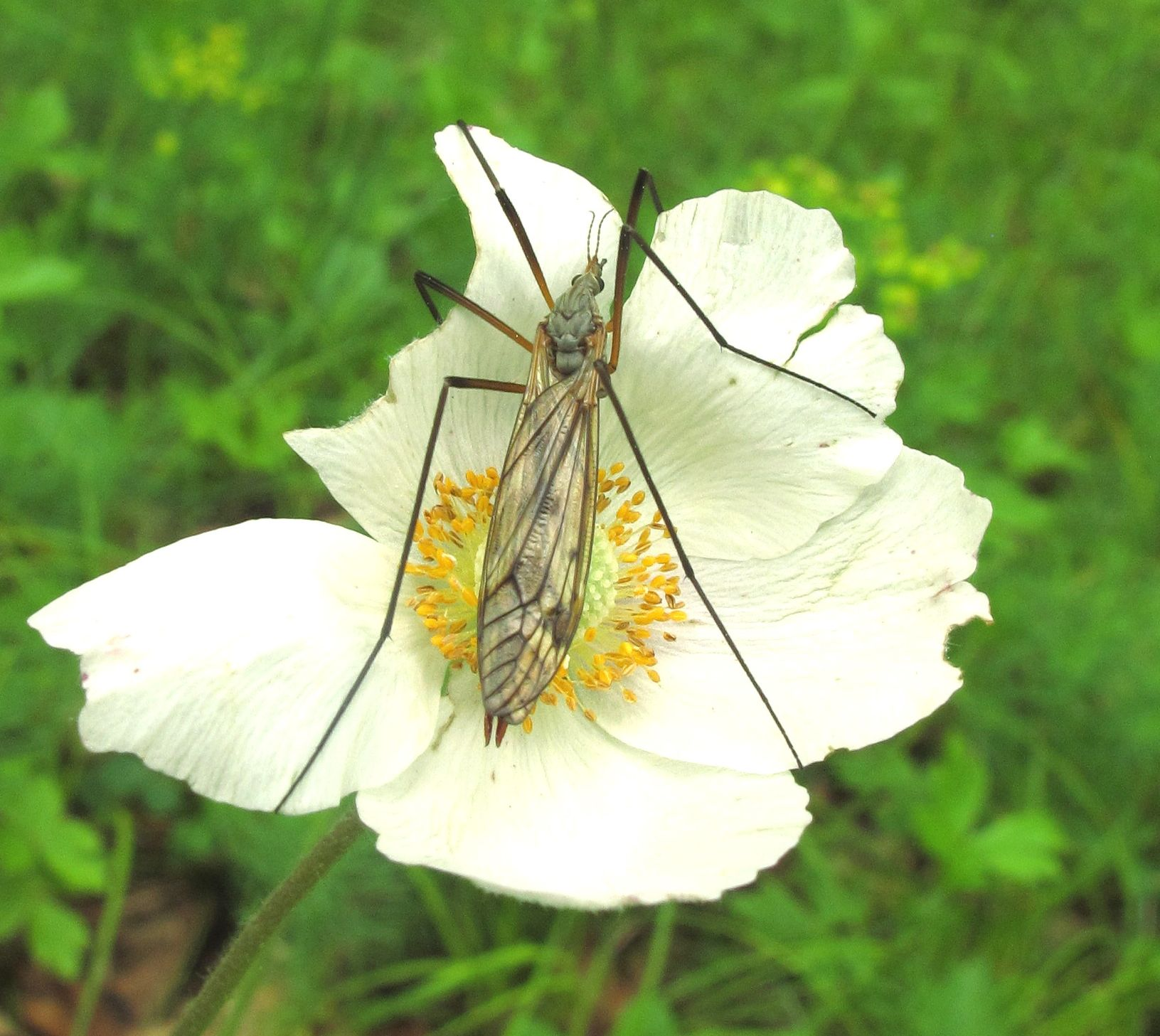 Tipula maxima on Anemone sylvestris